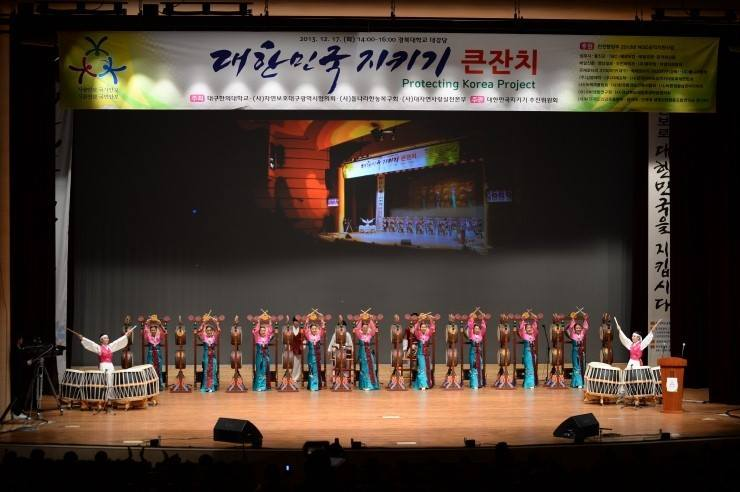 ArtsGroup